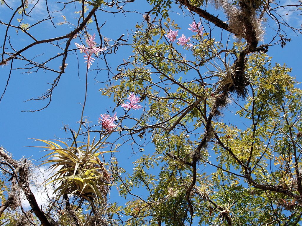 Tillandsia straminea, in habitat in Peru, exact location unknown.